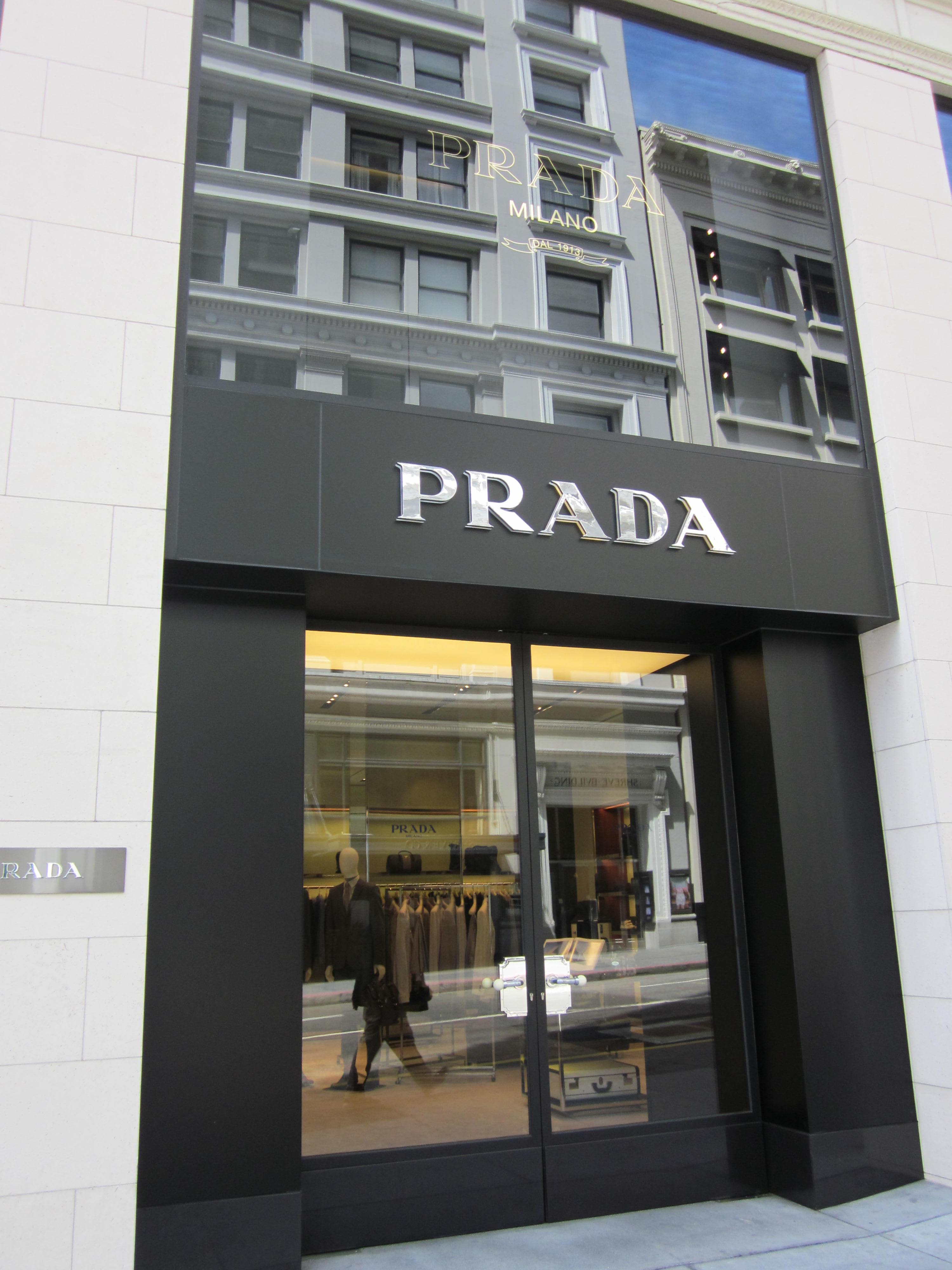 Prada on Post Street in San Francisco, California.